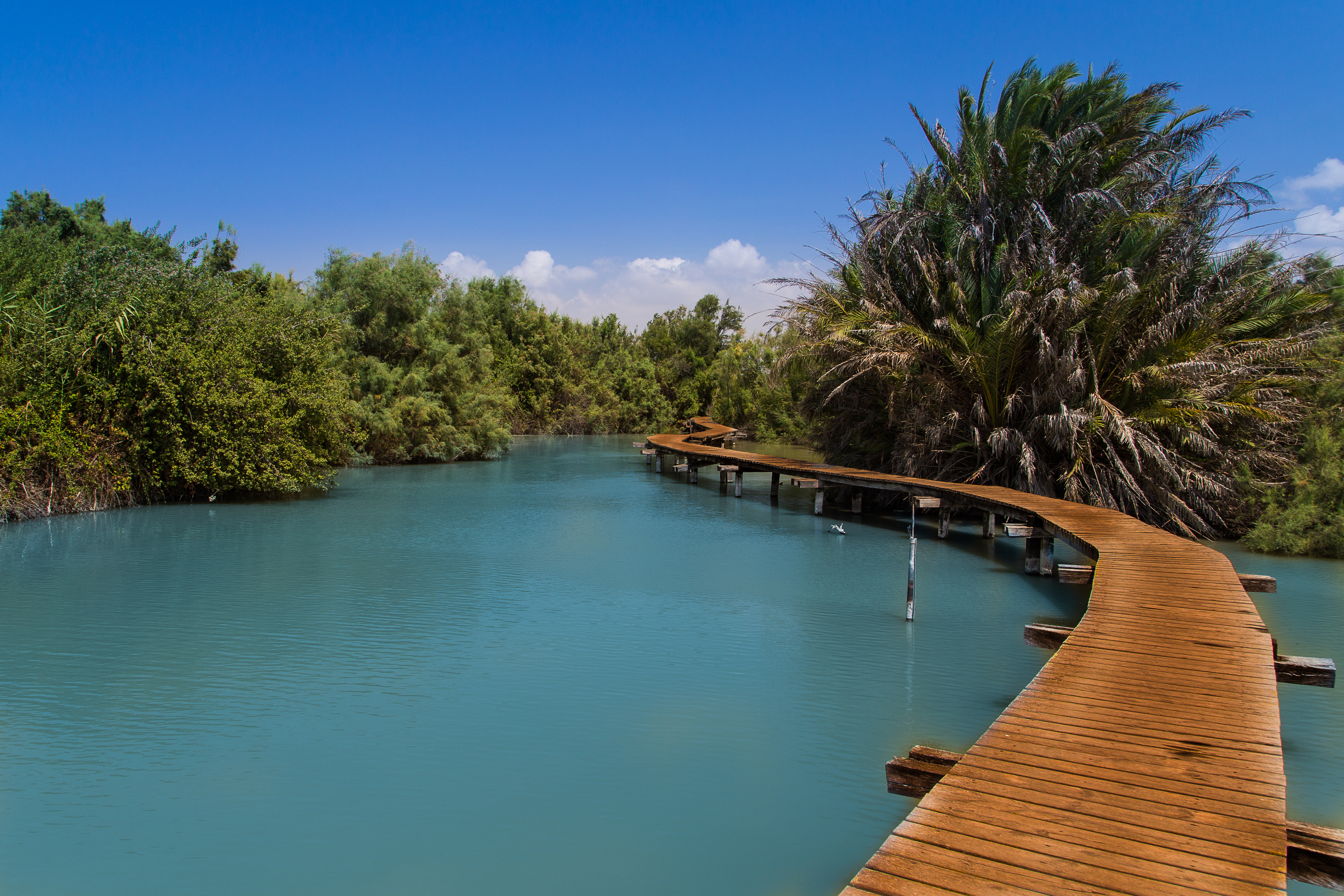 Tel Afek